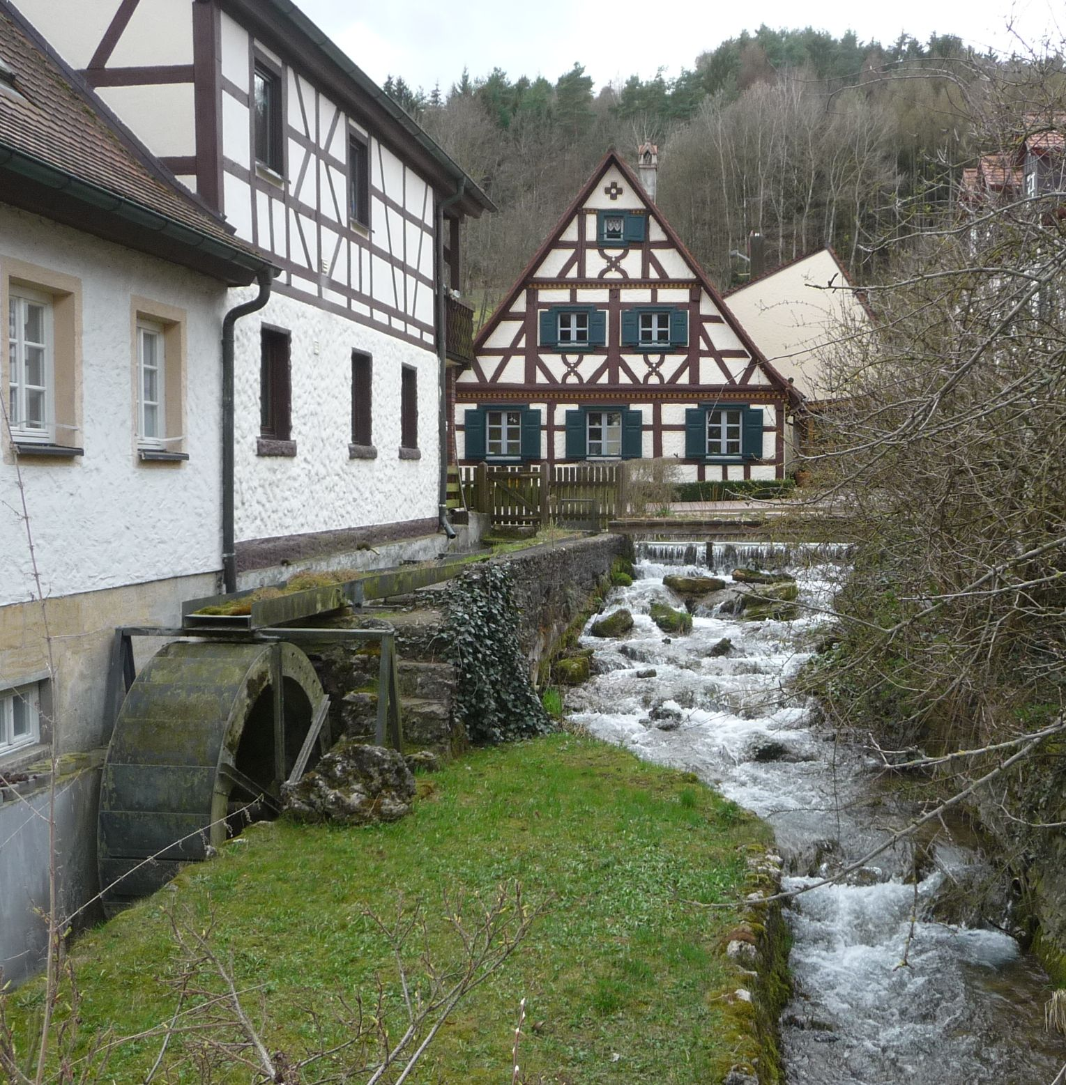 Frankendorf (Buttenheim)